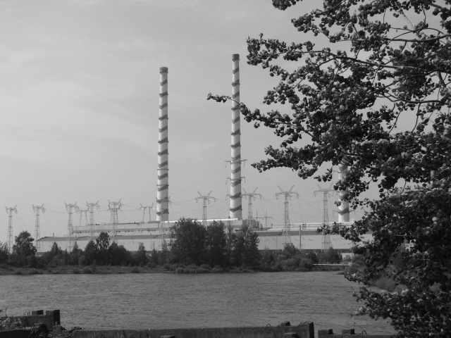 Fossil fuel power plant in Elektrėnai, Lithuania